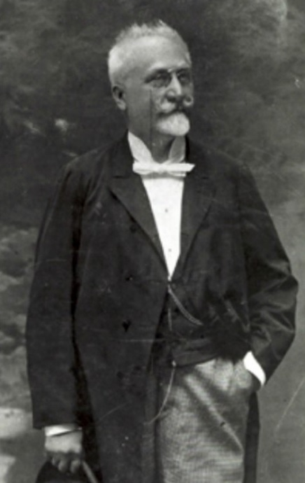 Dobos C. József (Pest, 1847. január 18. – Budapest, 1924. október 10.) magyar cukrász, szakácsmester, szakíró.